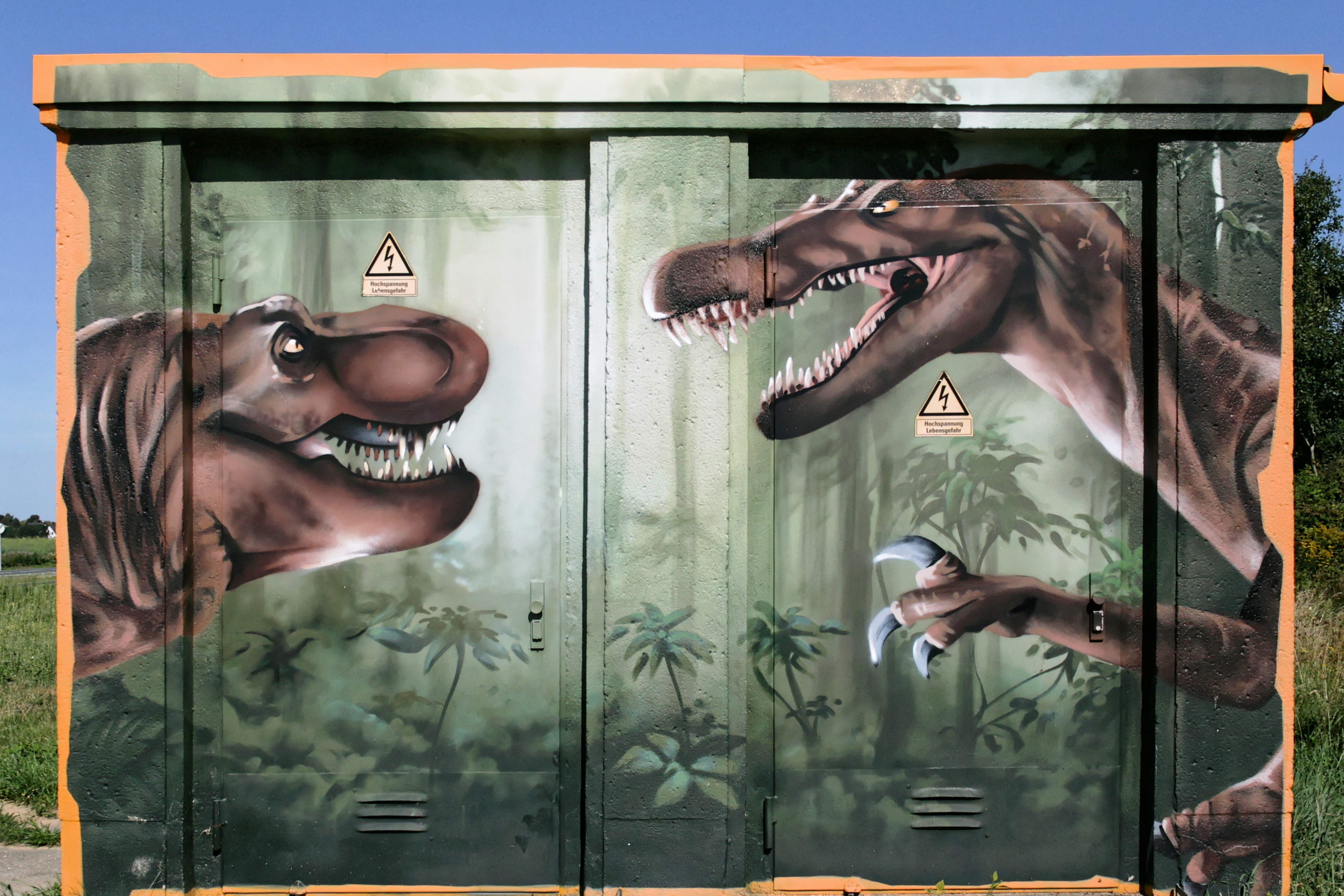 Distribution substation at the street Hoyerswerdaer Straße in Bautzen with wall painting: leading to the dinosaur model park in Kleinwelka.